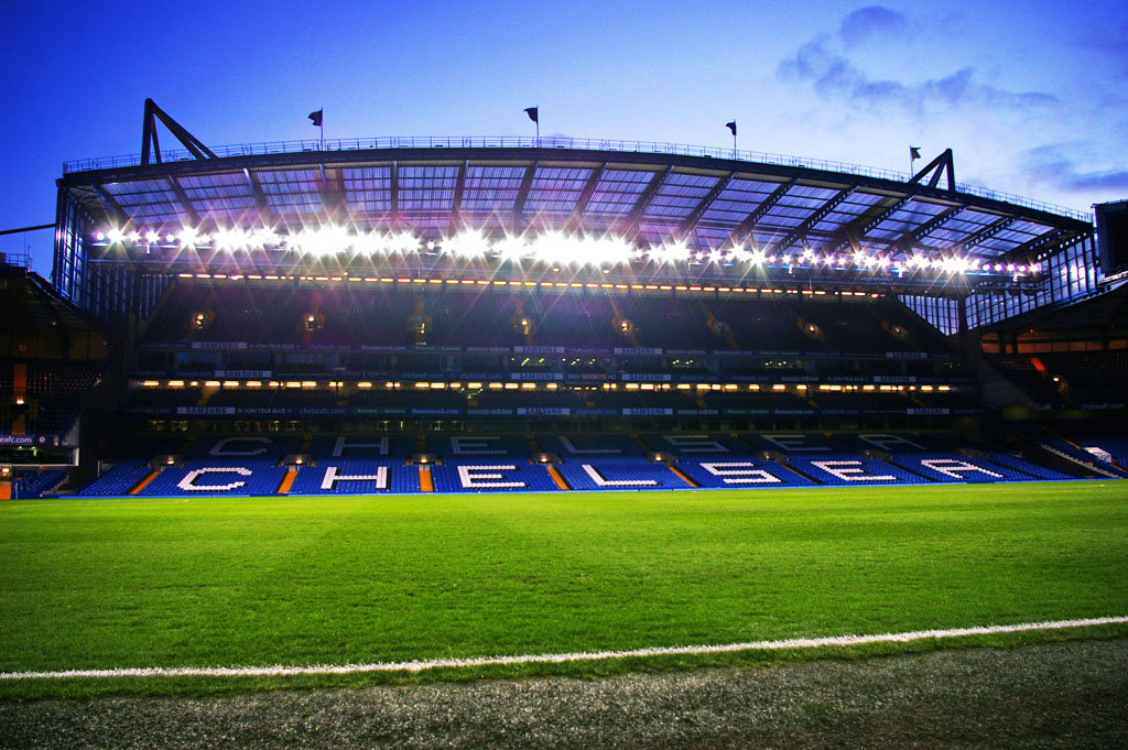 Stamford Bridge (View of West Stand, taken from the East Stand Lower)